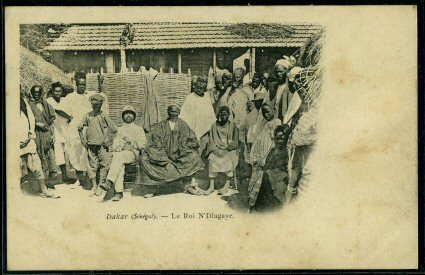 Dakar : King N'Diagaye. Dakar : Le Roi N'Diagaye. Published in the 1900s, Unknown publisher.